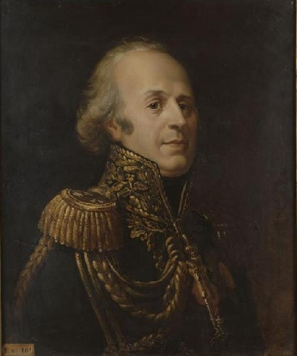 General count Narbonne-Lara